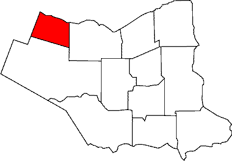 Location of Grimsby, Ontario